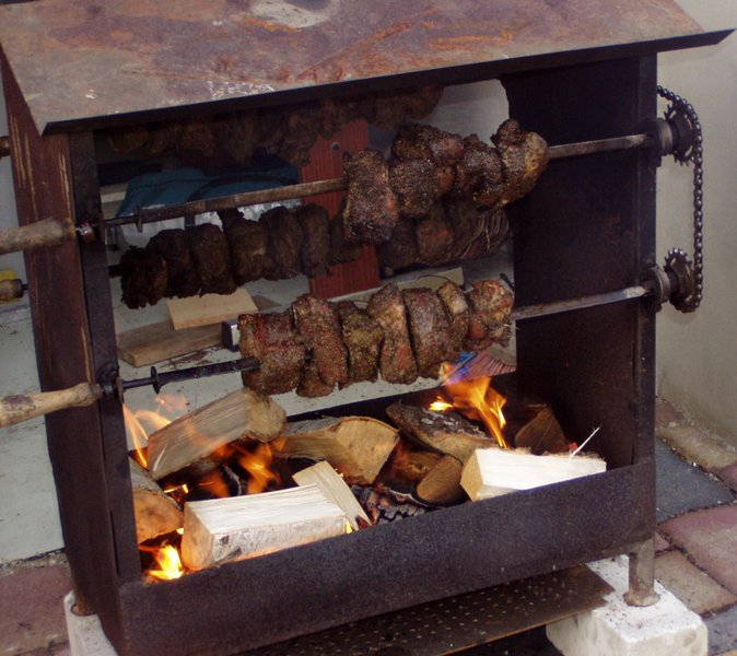 So called Mutzbratenstand, used for the preparation of a special meat dish in eastern Thuringia, Germany.